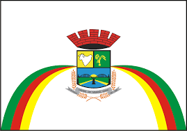 Flags of the city of Manoel Viana, Rio Grande do Sul, Brazil.